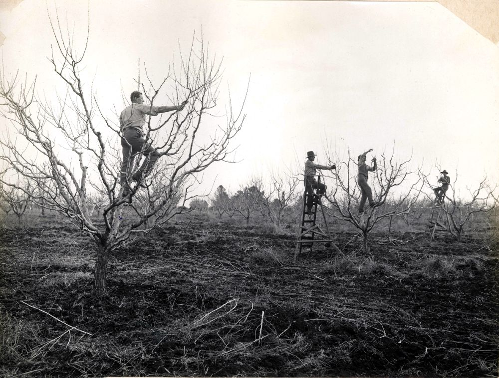 Clinton Soldiers' Settlement Estate - pruning in the orchard Dated: by 31/12/1921 Digital ID: 8095_a016_a016000014 Rights: See the official soldier settlement website A Land Fit For Heroes? » We'd love to hear from you if you use our photos. Many other photos in our collection are available to view and browse on our website using Photo Investigator.